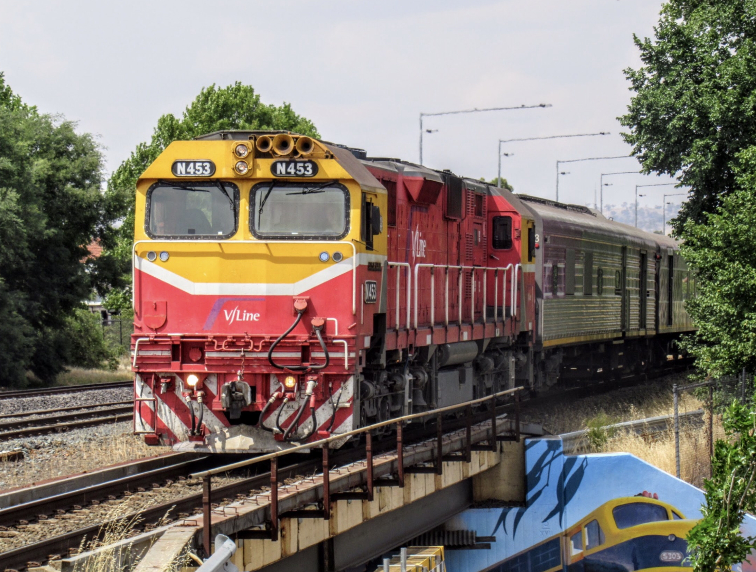 Melbourne to Albury Vline in Seymour